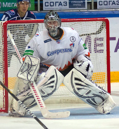 Vadim Tarasov during Amur Khabarovsk - Severstal Cherepovets game in 2011.